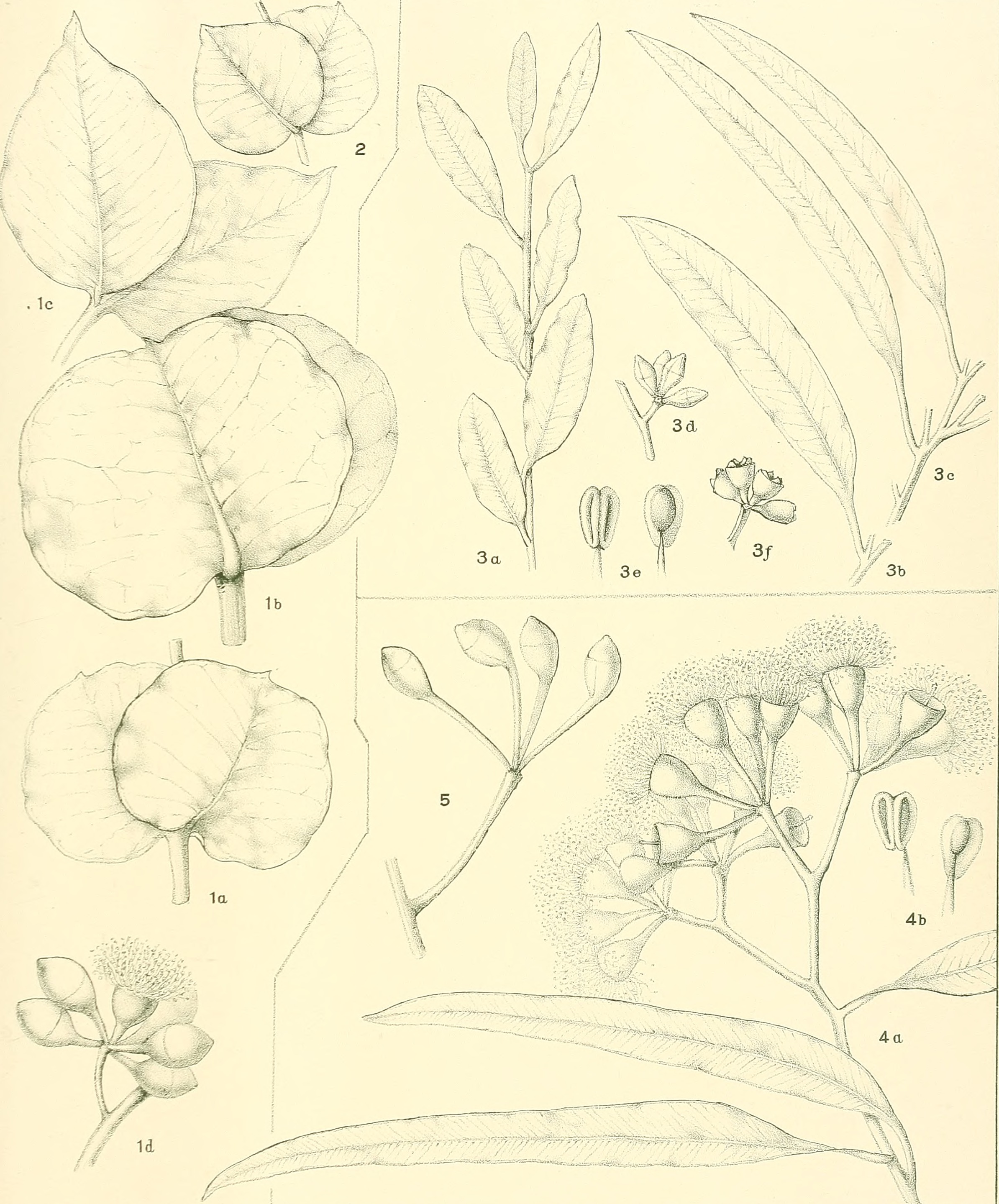 Title: A critical revision of the genus Eucalyptus Year: 1903 (1900s) Authors: Maiden, J. H. (Joseph Henry), 1859-1925 Subjects: Eucalyptus Publisher: Sydney, W. A. Gullick, government printer Text Appearing Before Image: Crit. Rev. Eucalyptus PL. 280. Text Appearing After Image: M.riQcHi-o-n.dtl- eHlth EUCALYPTUS CRUCIS Maiden. (/, 2.) (See also Plate 242.) E. KONDININENSIS Maiden and Blakely, n. sp. (5). E. TERMINALIS F.v.M. var: LONGIPEDATA Maiden and Blakely, n. vai\; (4-5). (See also Plates 164, 165.)